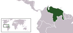 Location map for the First Republic of Venezuela. Originally created for English Wikipedia by .